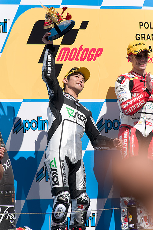 Hiroshi Aoyama at 2009 Motegi podium. Finger in front of the lens.